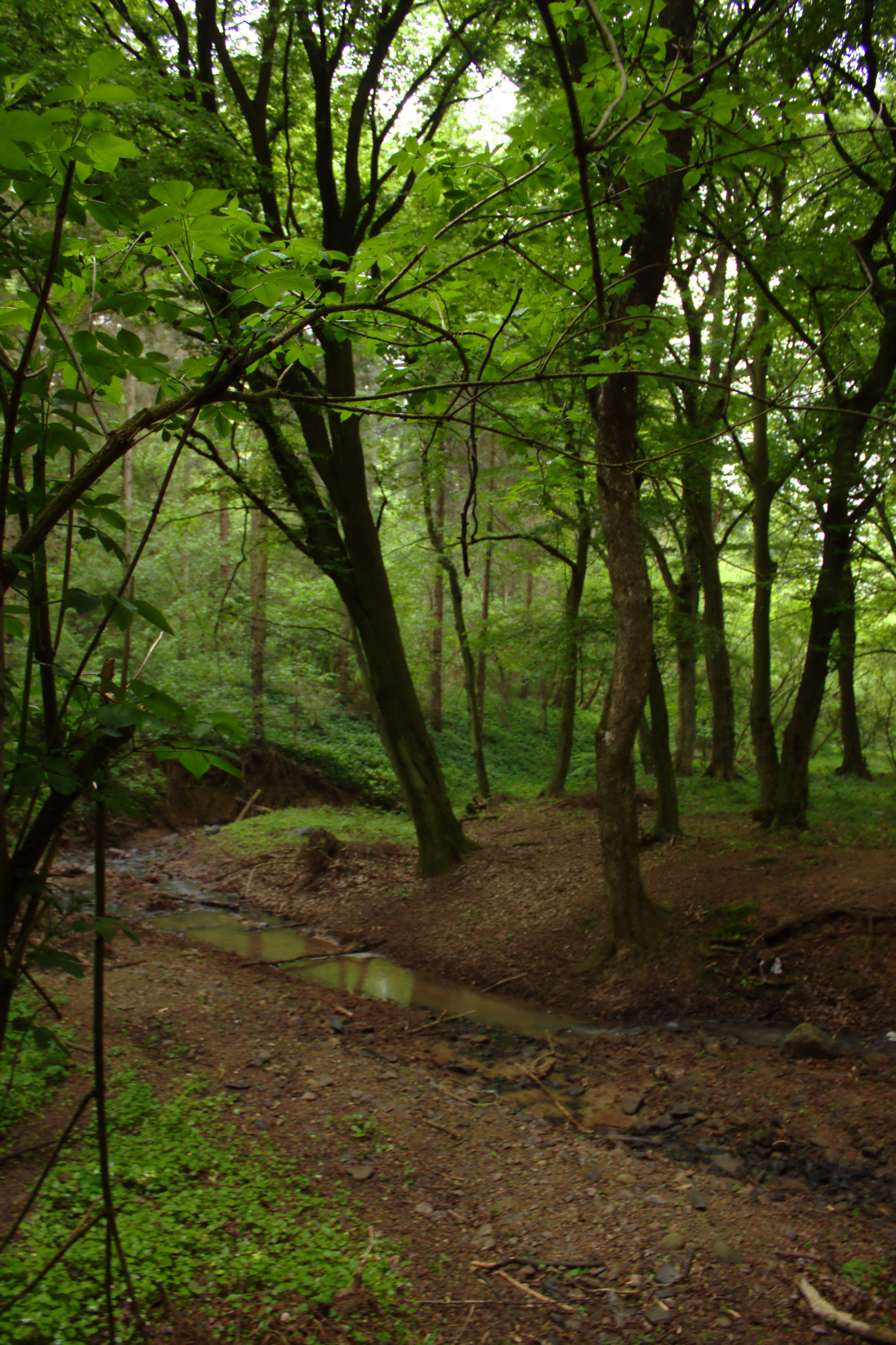 A creek somewhere close to Stražilovo on the eastern edge of the Fruška Gora National Park, Serbia